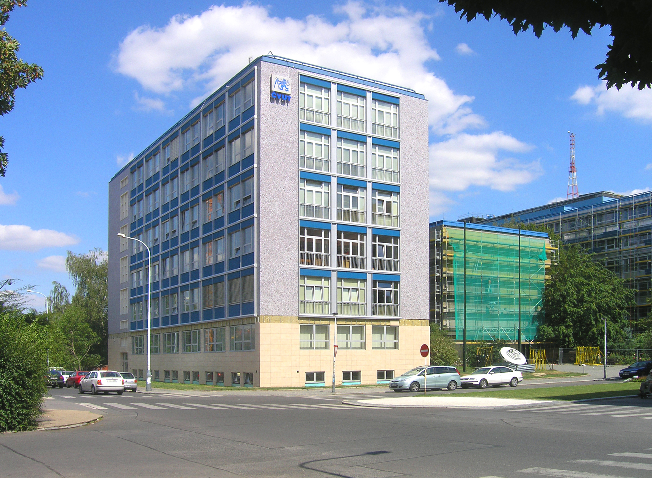 Faculty of Mechanical Engineering at Technická street at Dejvice, Prague